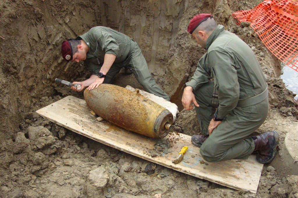 EOD Team of the 8th Airborne Combat Engineer Regiment in Cesena, Italy, 04-29-2013, working on a second world war unexplosed bomb